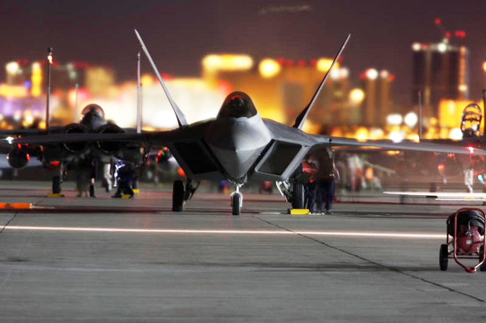 NELLIS AIR FORCE BASE, Nev.-- The lights of the Las Vegas Strip serve as the backdrop for an F-22 Raptor from Holloman Air Force Base, N.M., during Red Flag 10-2. Red Flag is a realistic combat training exercise involving the air forces of the United States and its allies. The exercise is conducted on the 15,000-square-mile Nevada Test and Training Range, north of Las Vegas.